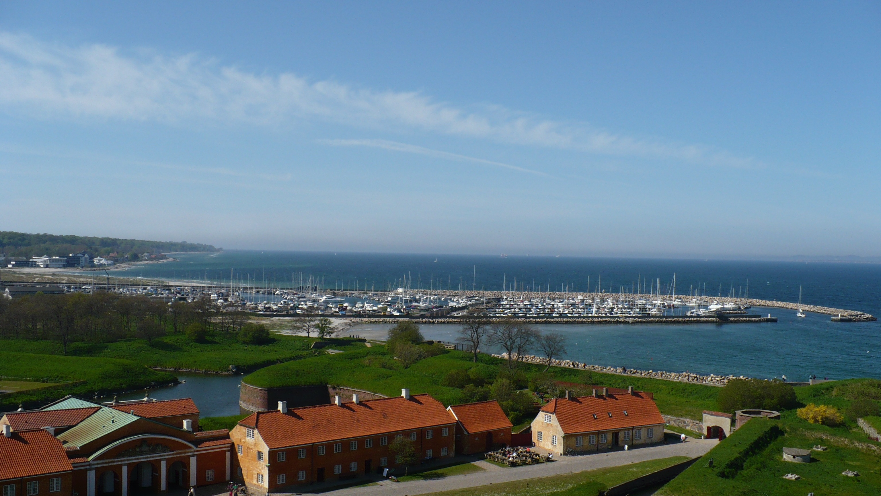 Sound view from top of the castle Kronborg in Elsinore.